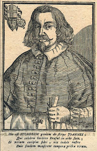 Portait of Johannes Magnus from the Skara Portrait Collection.